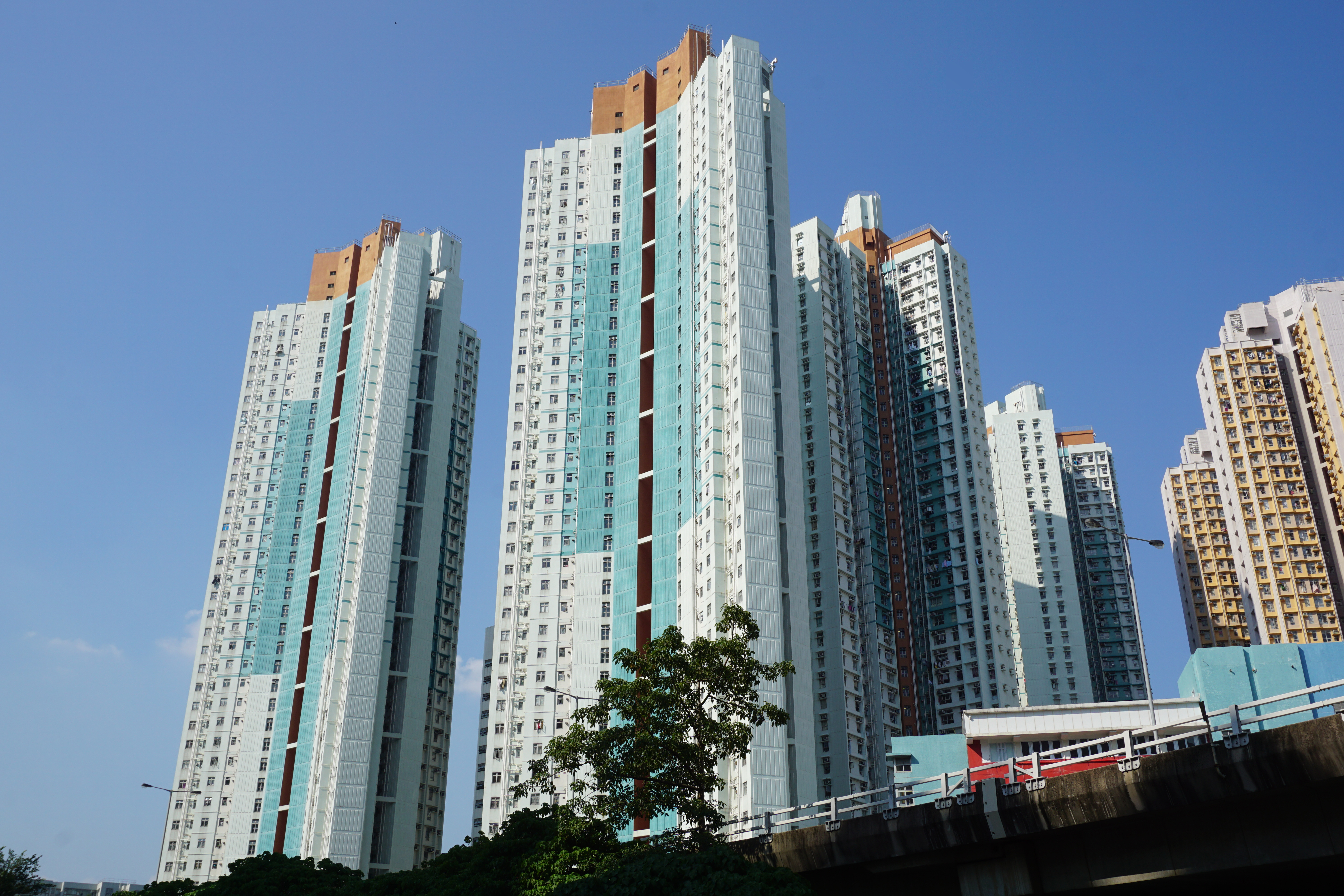 Tung Tao Court in Shau Kei Wan, Hong Kong.